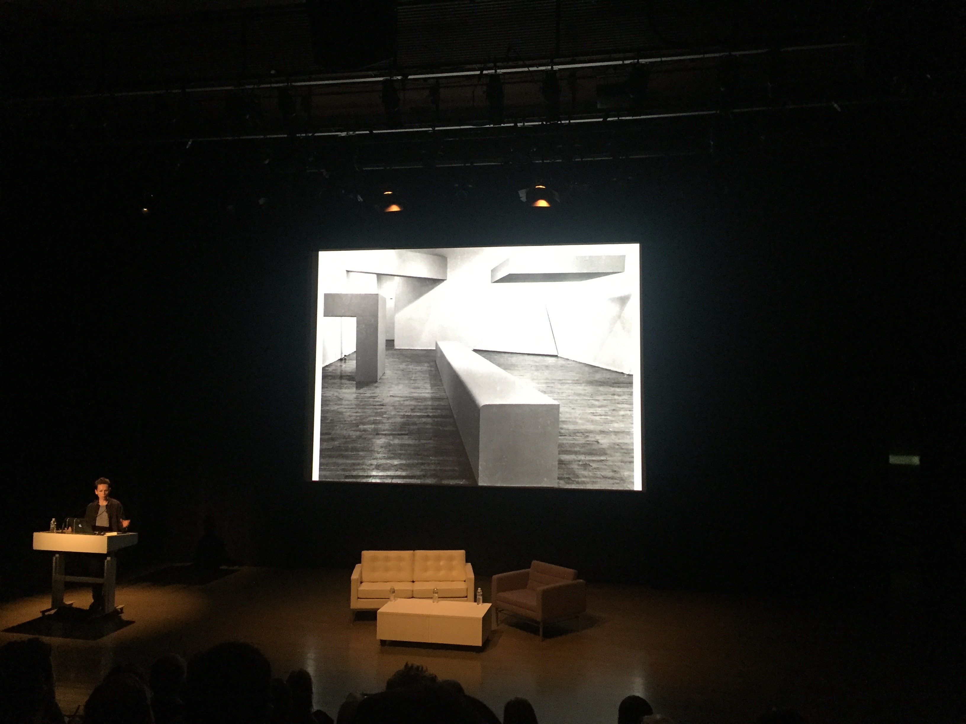 Interior architecture influenced Carol Bove's work